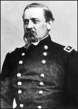 photo of William Farrar Smith (1824-1903)